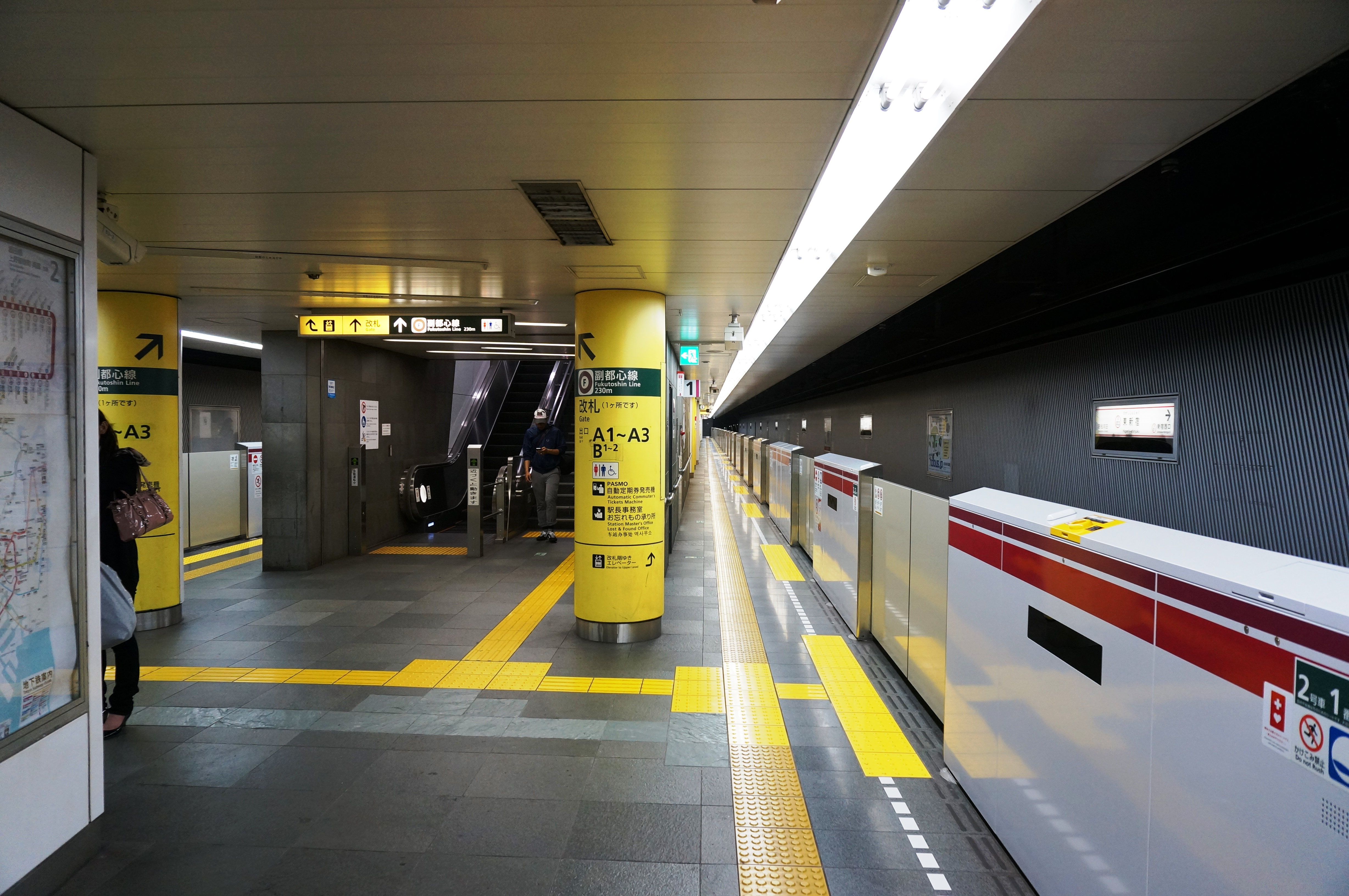 Higashi-shinjyuku sta platform (oedo line)